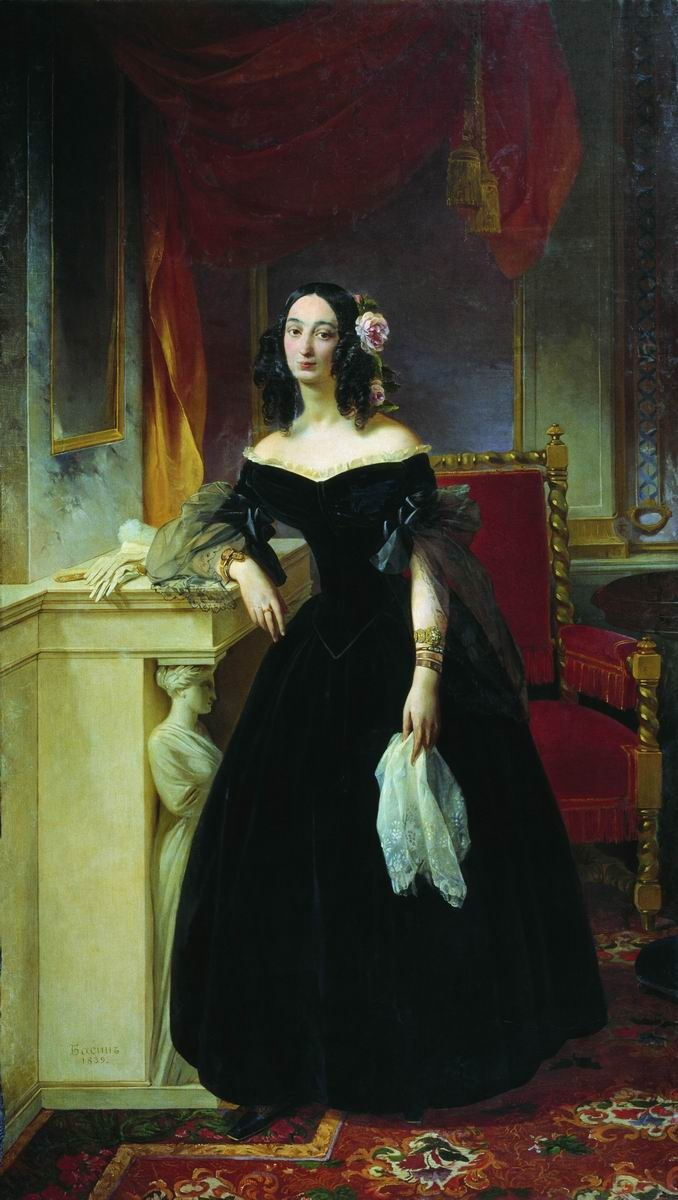 Portrait of Sophia Kushnikova (1806/10 - 1882)